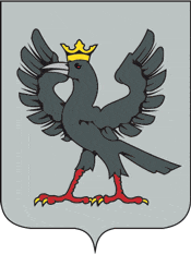 Historical CoA of Halych, Ukraine of the 14th century.